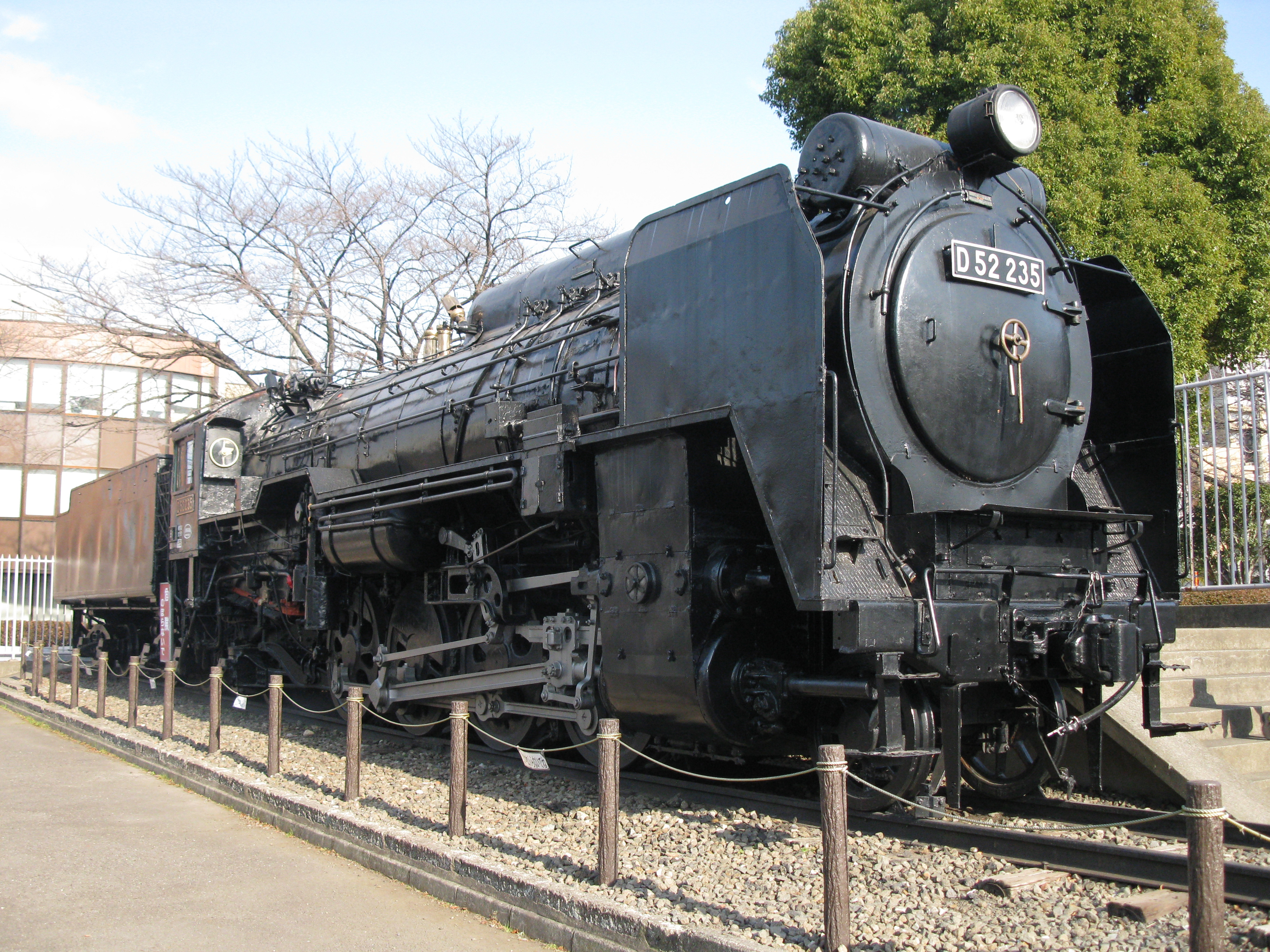 JNR Steam Locomotive Class D52 no.235 (Chuo-ku, Sagamihara, Kanagawa, Japan)